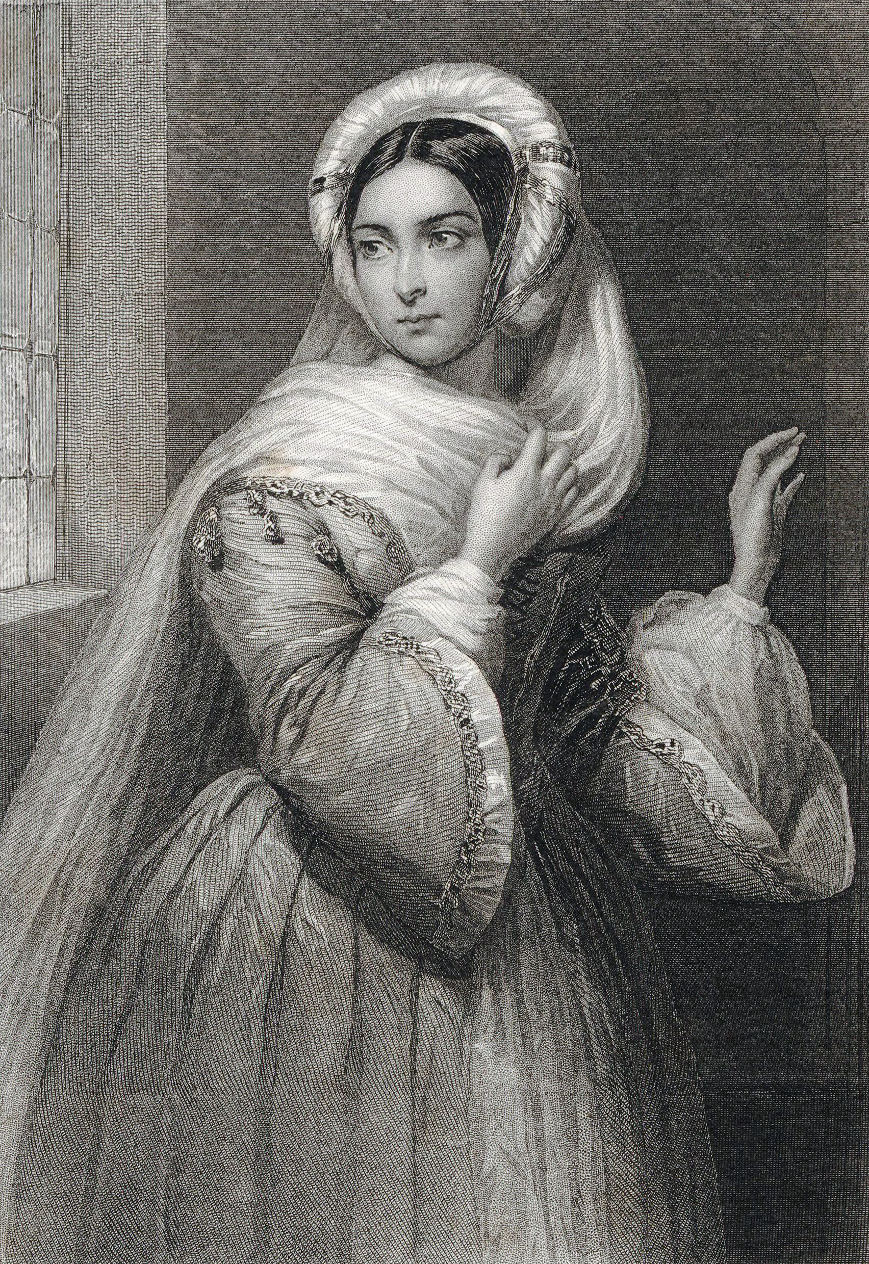 Cornélie Falcon as Rachel in Halévy's La Juive